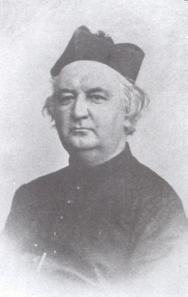 Father Ivan Gagarine, Russian prince, diplomat and jesuit. Ecumenist.